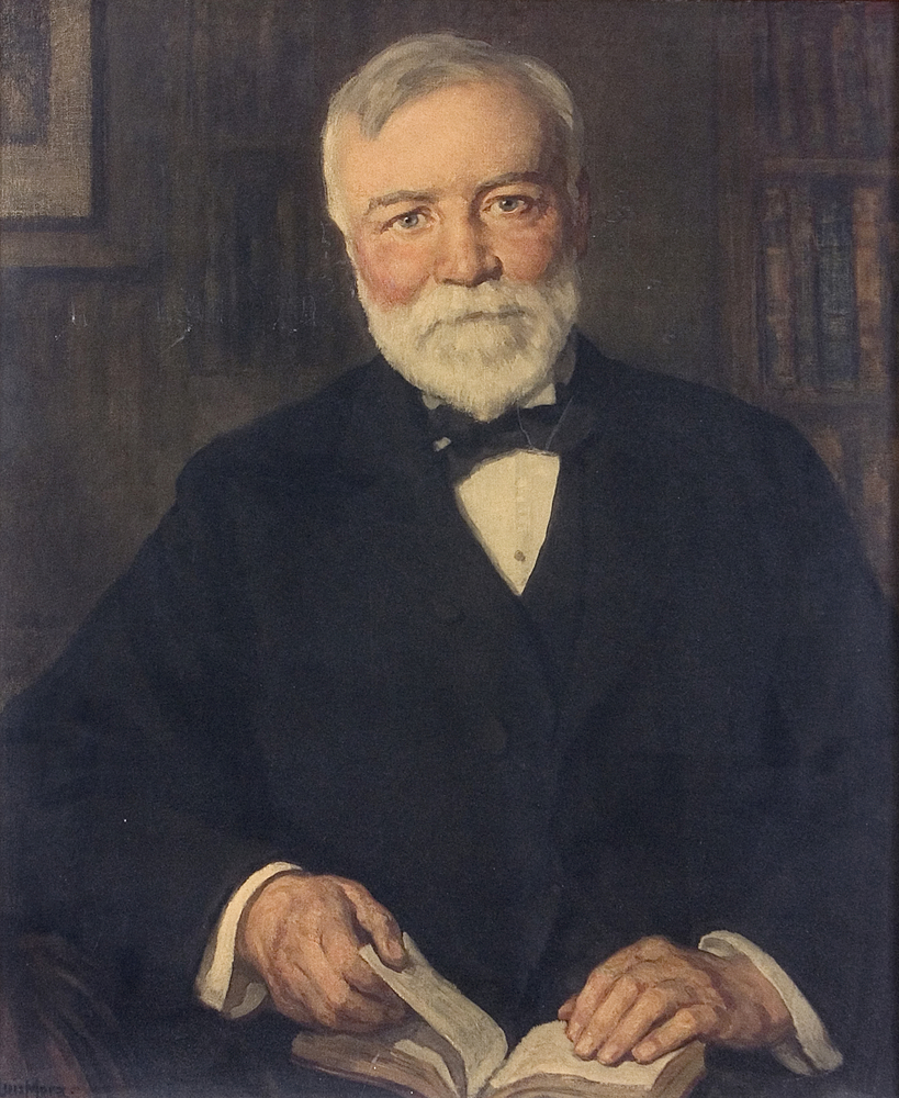 "Andrew Carnegie (1835-1919)," oil on canvas, painted by Francis Luis Mora. 24 1/2 in. x 20 in. Courtesy of the Brown University Portrait Collection, Brown University, Providence, R.I.